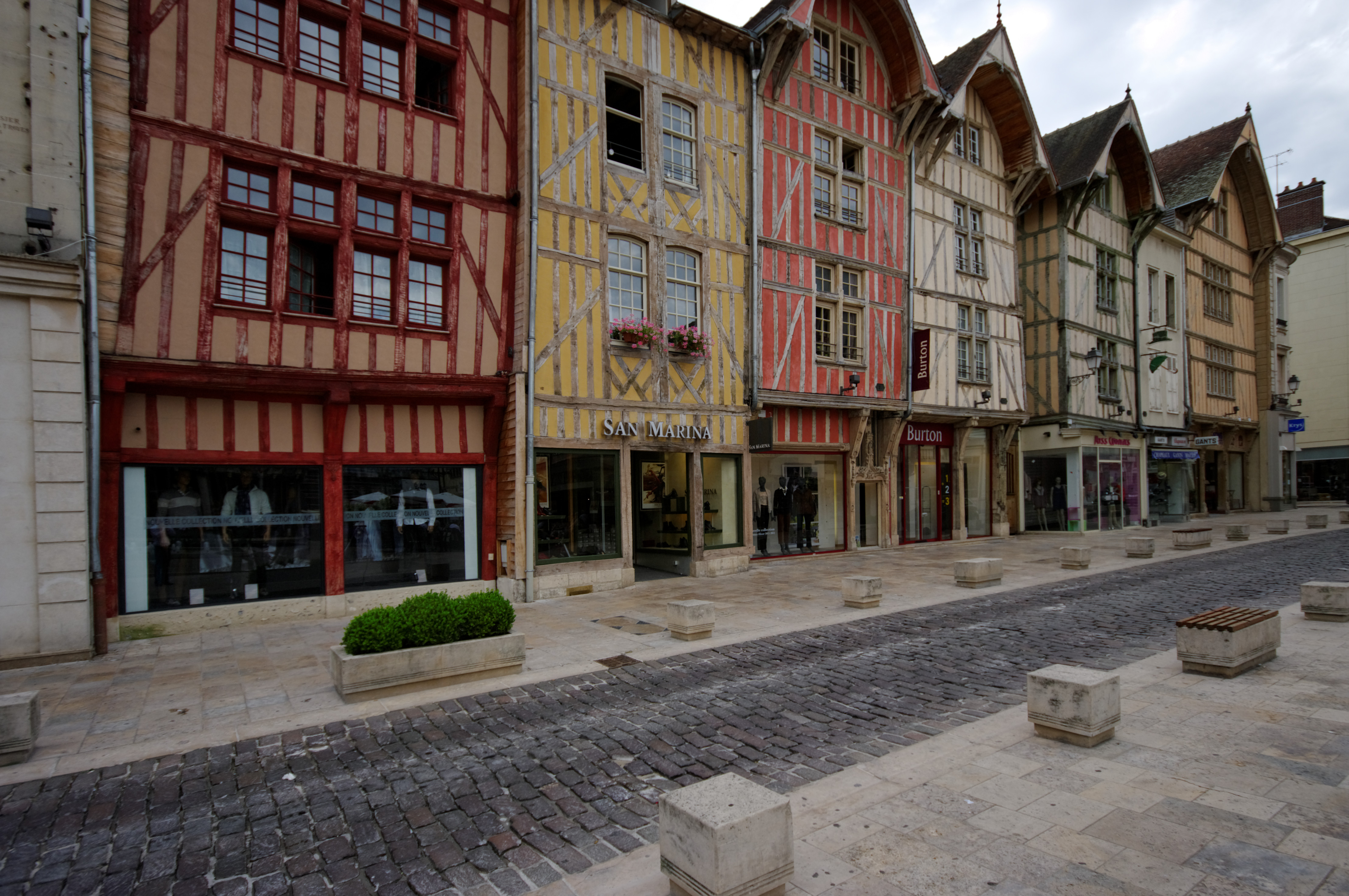 New Jewish Area - Troyes, France